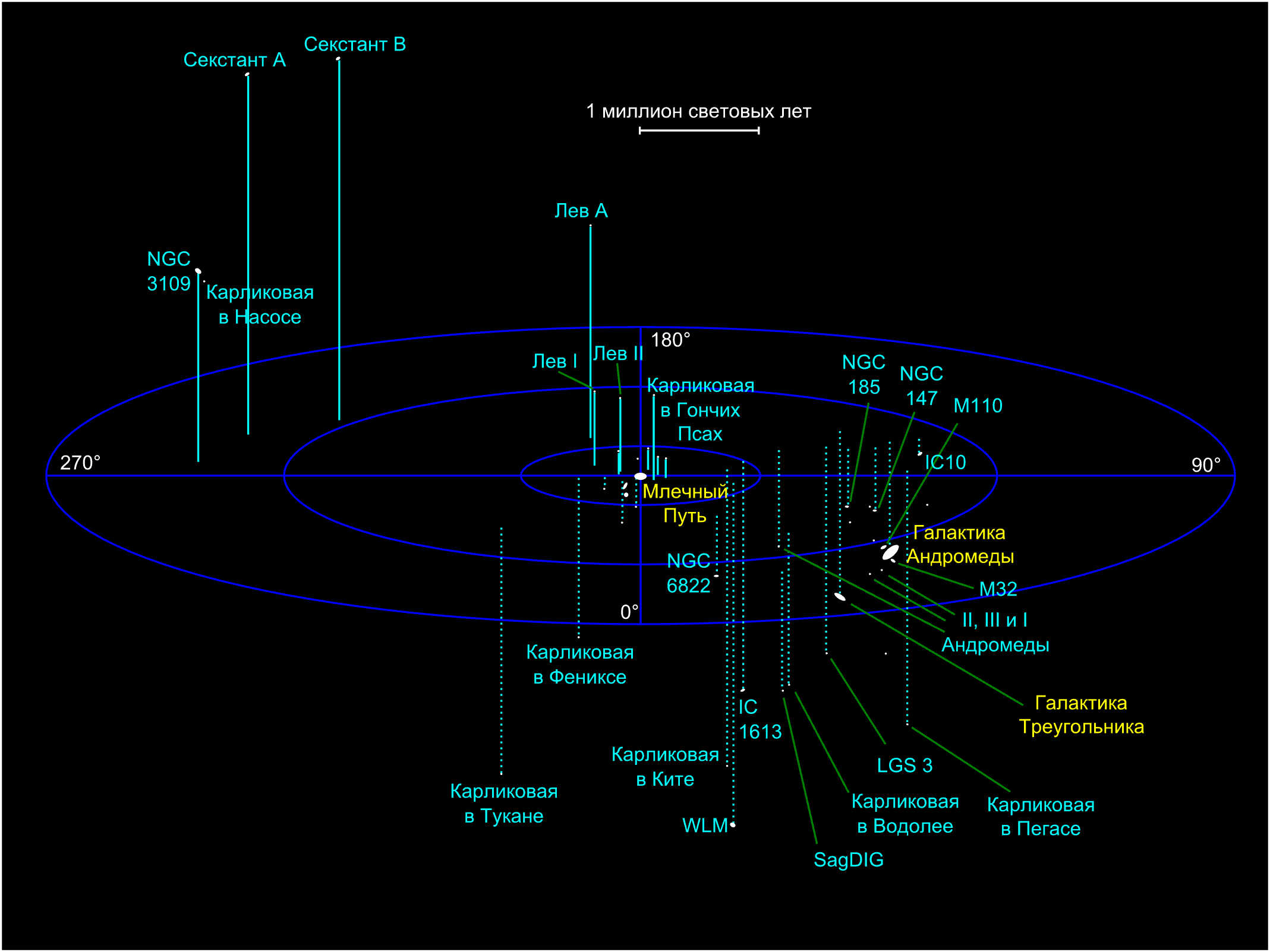 The local group of galaxies surrounding the Milky Way in Russian